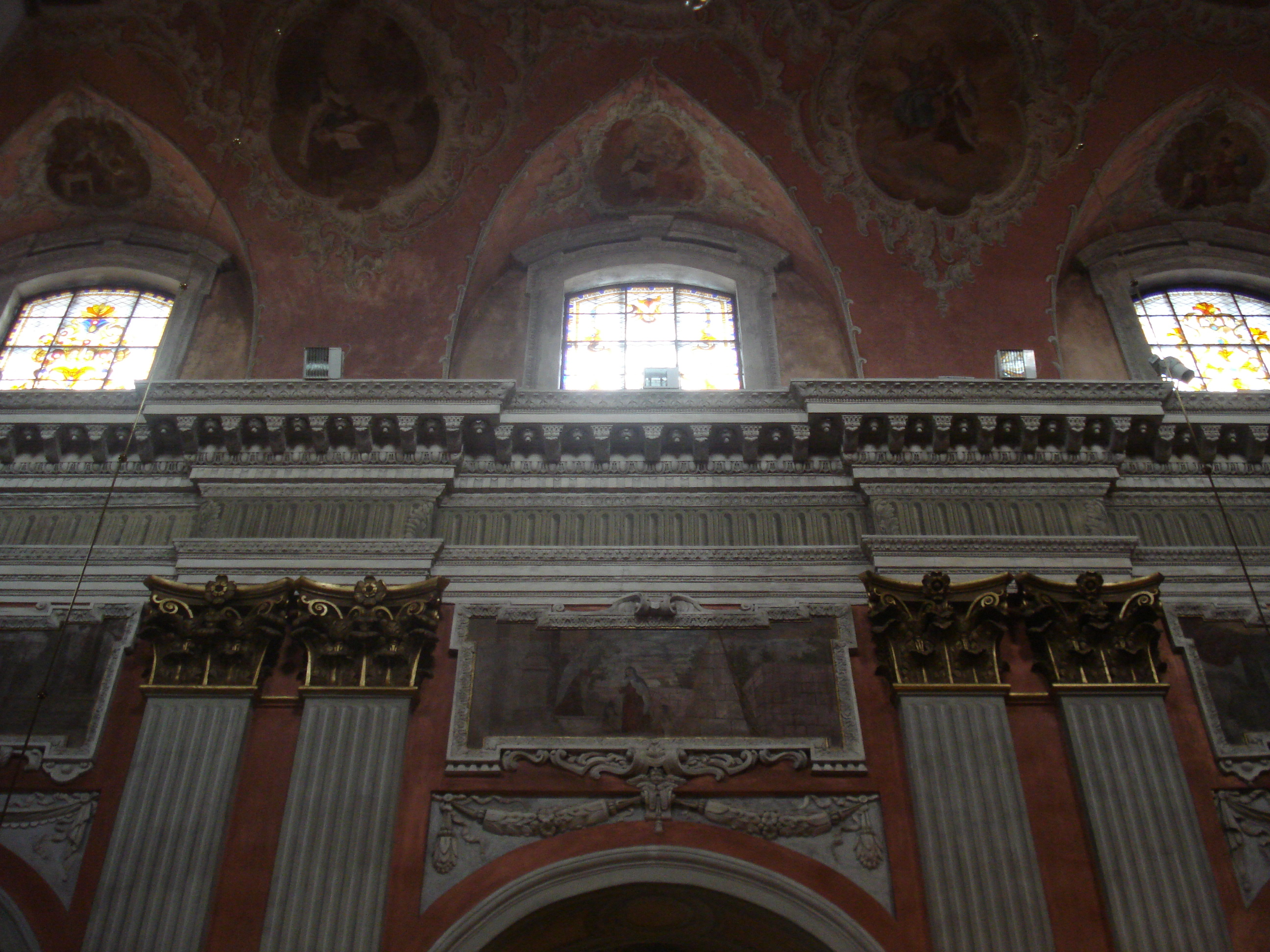 The walls and vaults of the central nave of the Church of the St Teresa in Vilnius (Aušros Vartų g. 14)